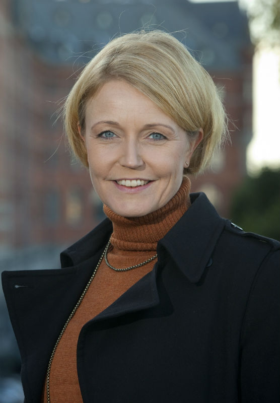 Elisabeth Thand Ringqvist, CEO of Swedish Federation of Business Owners